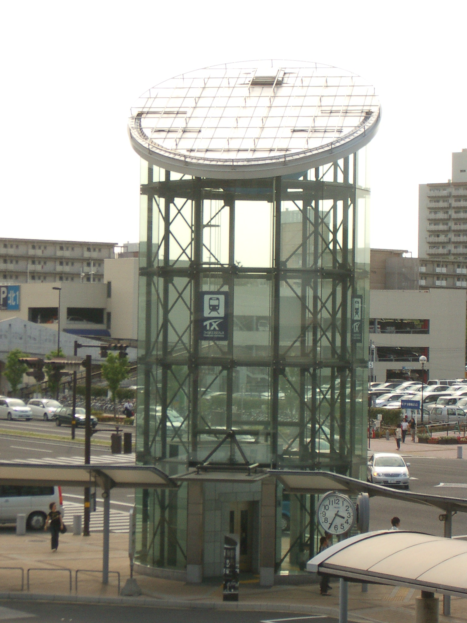 Elevator in Tsukuba Station